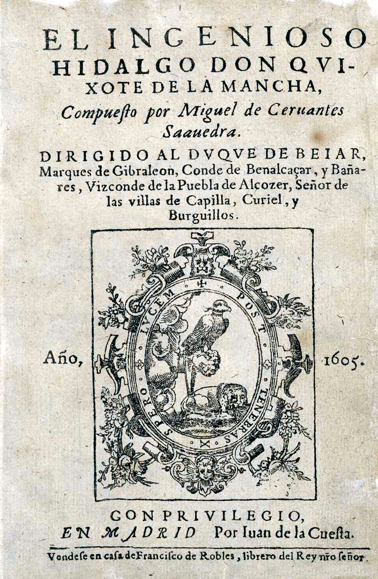 The Ingenious Gentleman Don Quixote de La Mancha